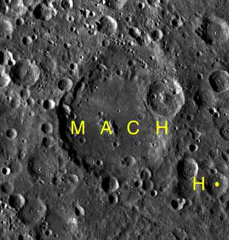 Part of the LROC image used for the presentation